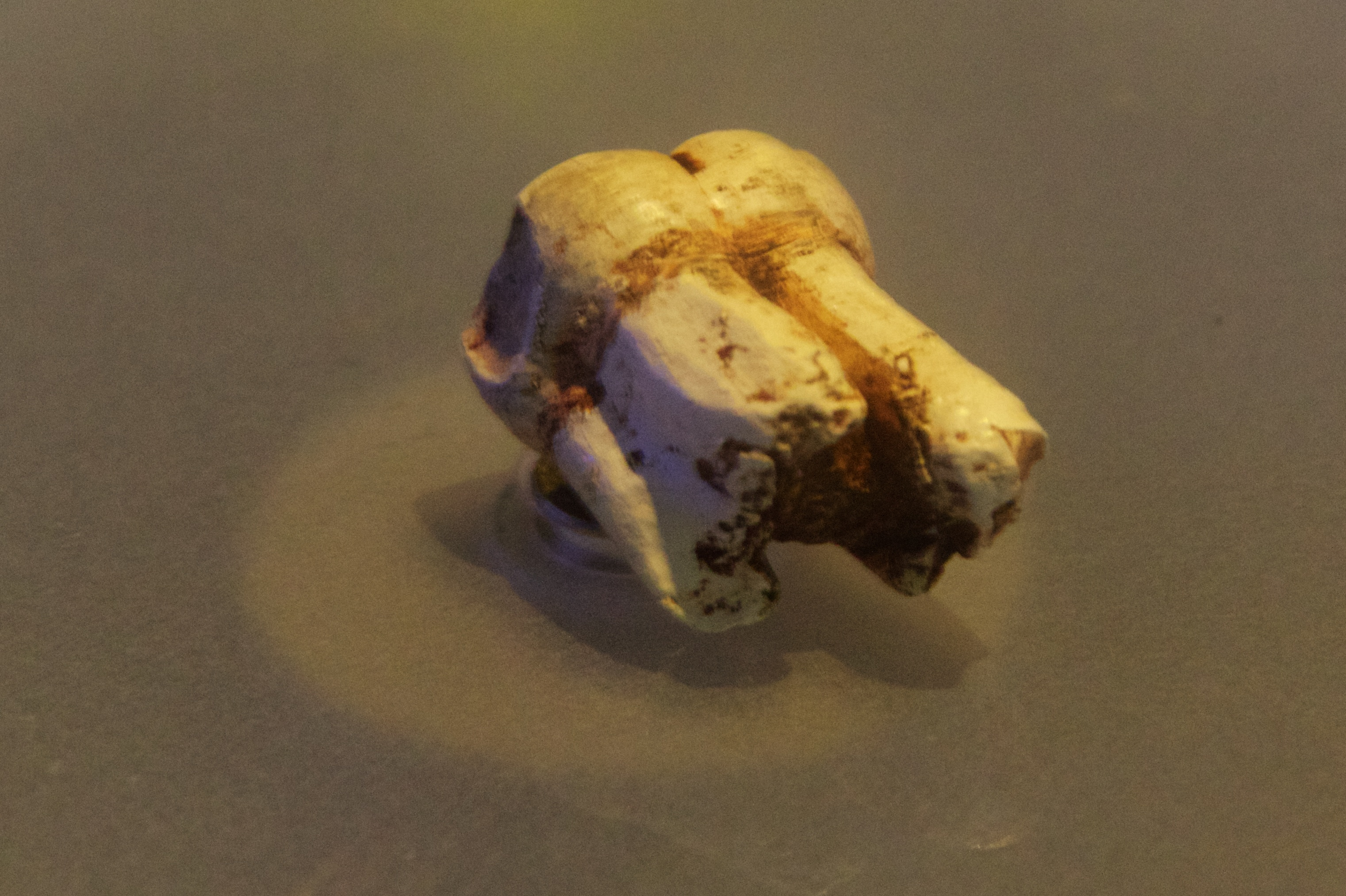 Parathropus robustus: tooth from Gondolin.. At the Sterkfontein caves.